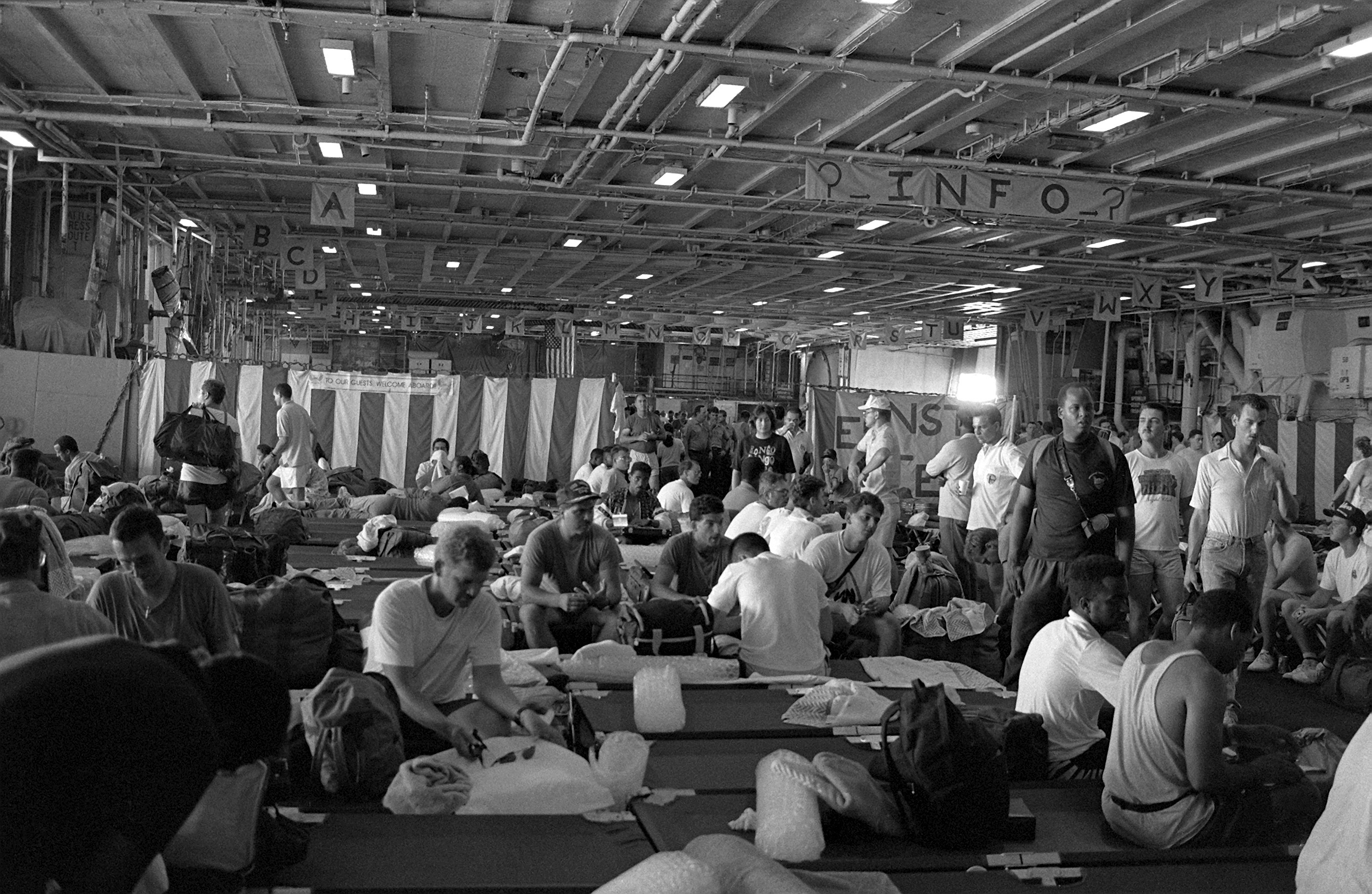 Evacuees from Clark Air Base and Naval Station, Subic Bay settle into their temporary quarters aboard the aircraft carrier USS MIDWAY (CV 41). Military personnel and dependents are being transported from the area in the aftermath of the eruption of Mount Pinatubo.